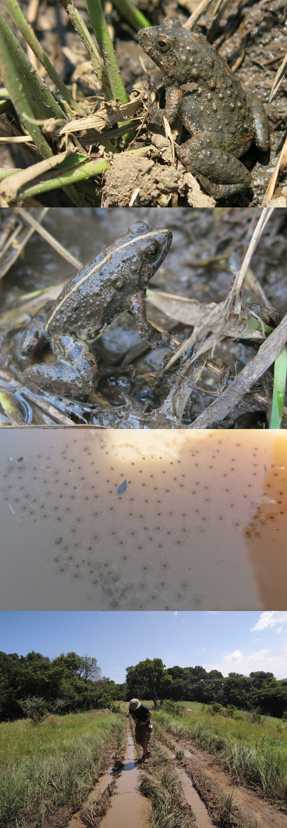 Puddle frogs habitat, breeding and variation